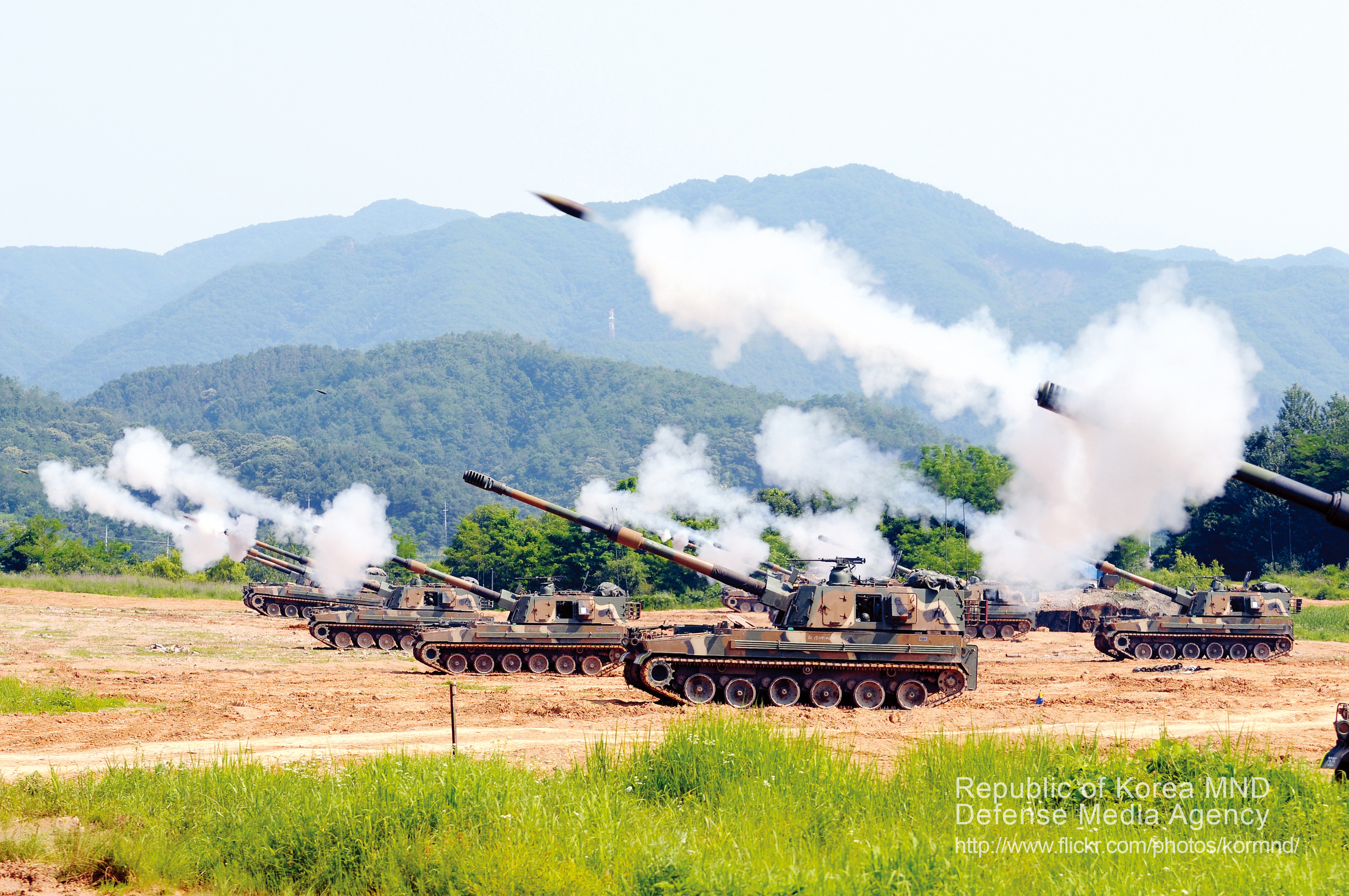 2009 국방화보 Rep. of Korea, Defense Photo Magazine 국산 155mm 자주포 K-9이 가상 적진을 향해 일제히 포문 을 열고 있다.